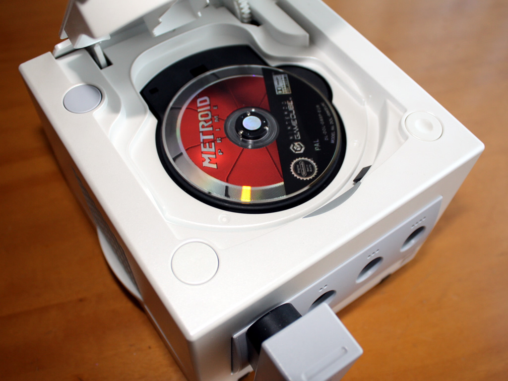 Nintendo GameCube with Metroid Prime G.O.D.